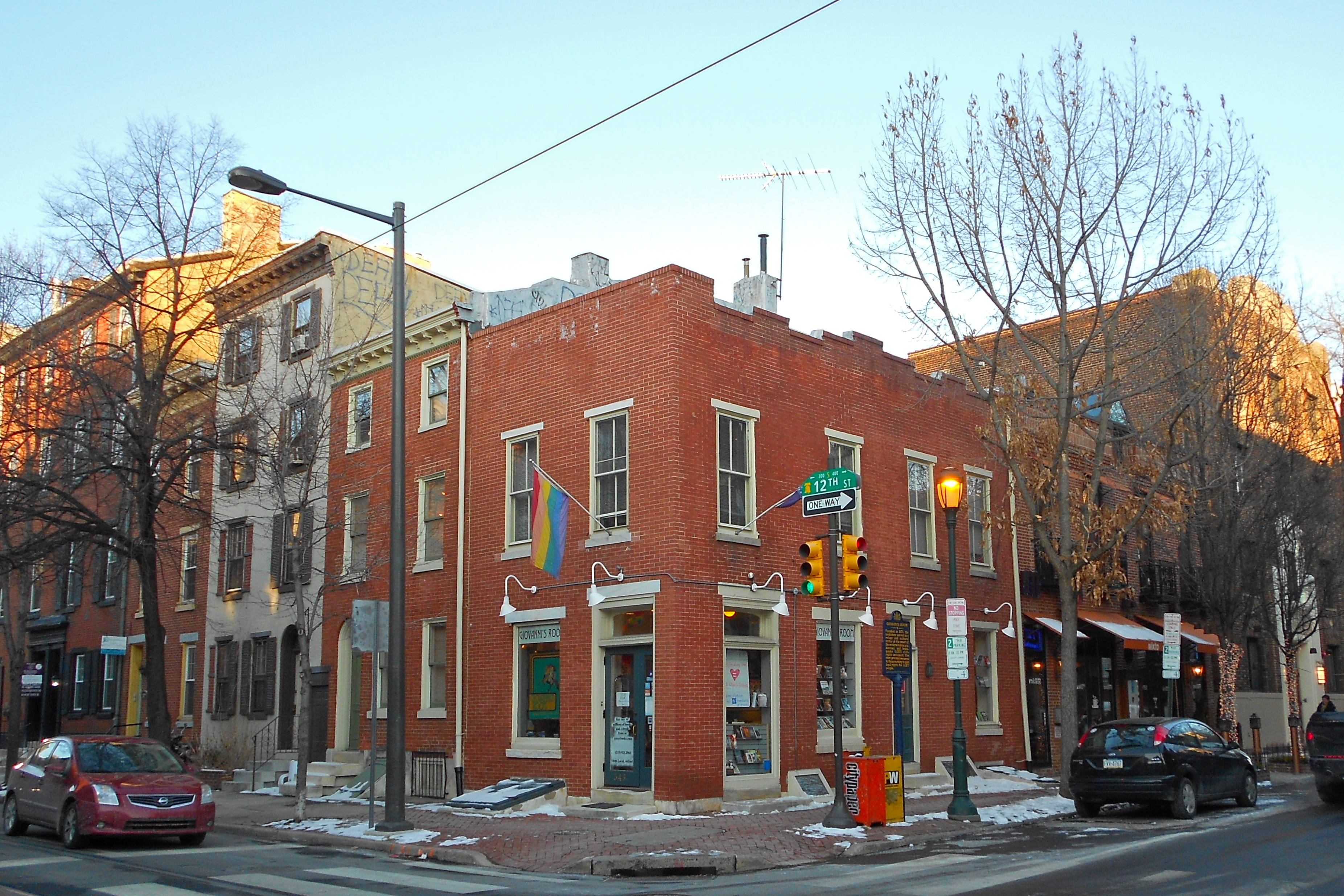 Giovannis Room LGBT/Feminist Bookstore in Philadelphia. PHMC historic marker in front of building. building constructed 1820 according to the Rolling Stone [1]